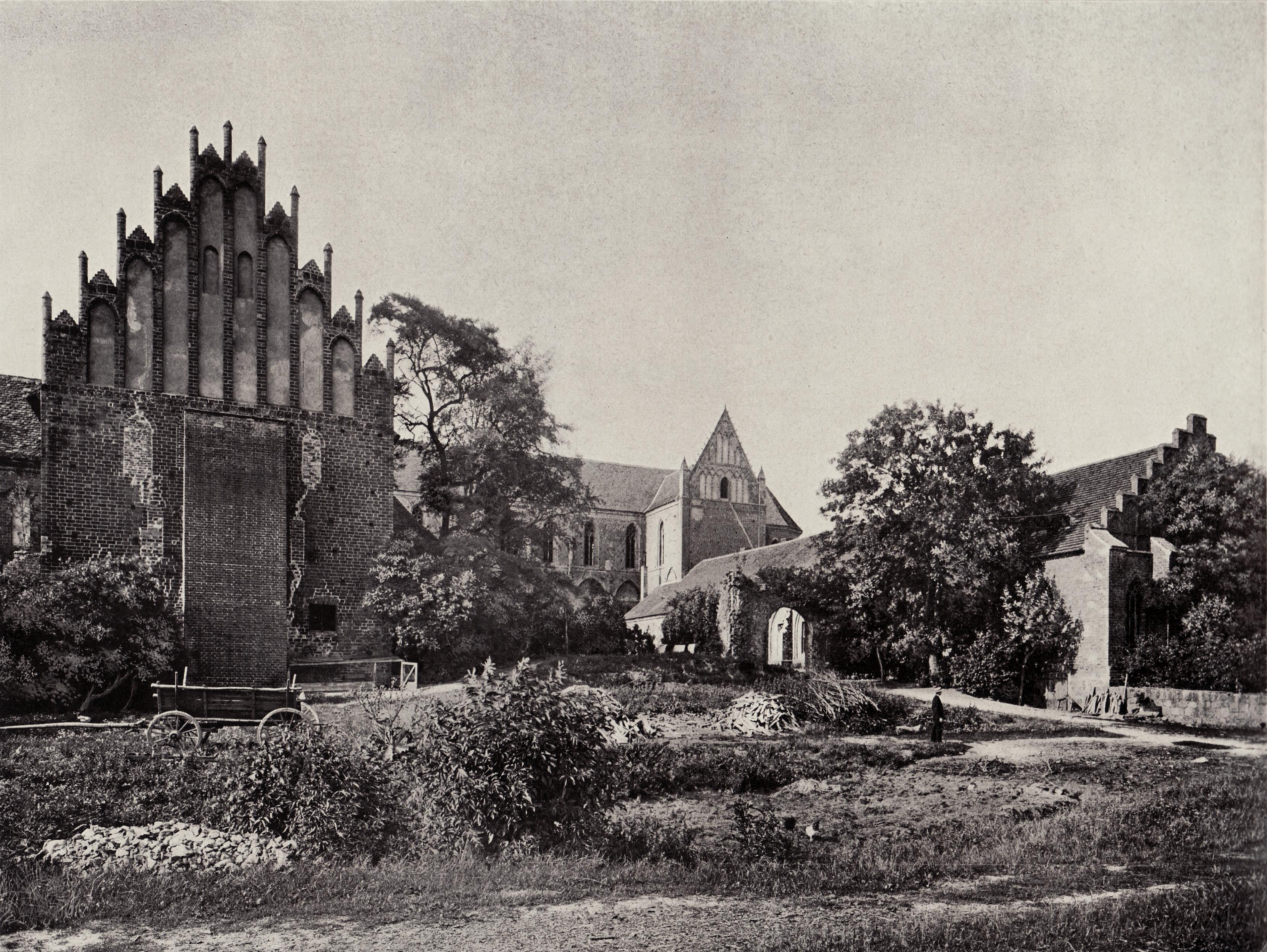 Koster Chorin around 1900